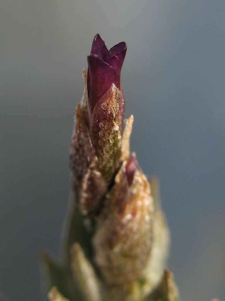 Tillandsia brealitoensis, in cultivation at the Botanical Garden of Heidelberg, Germany.